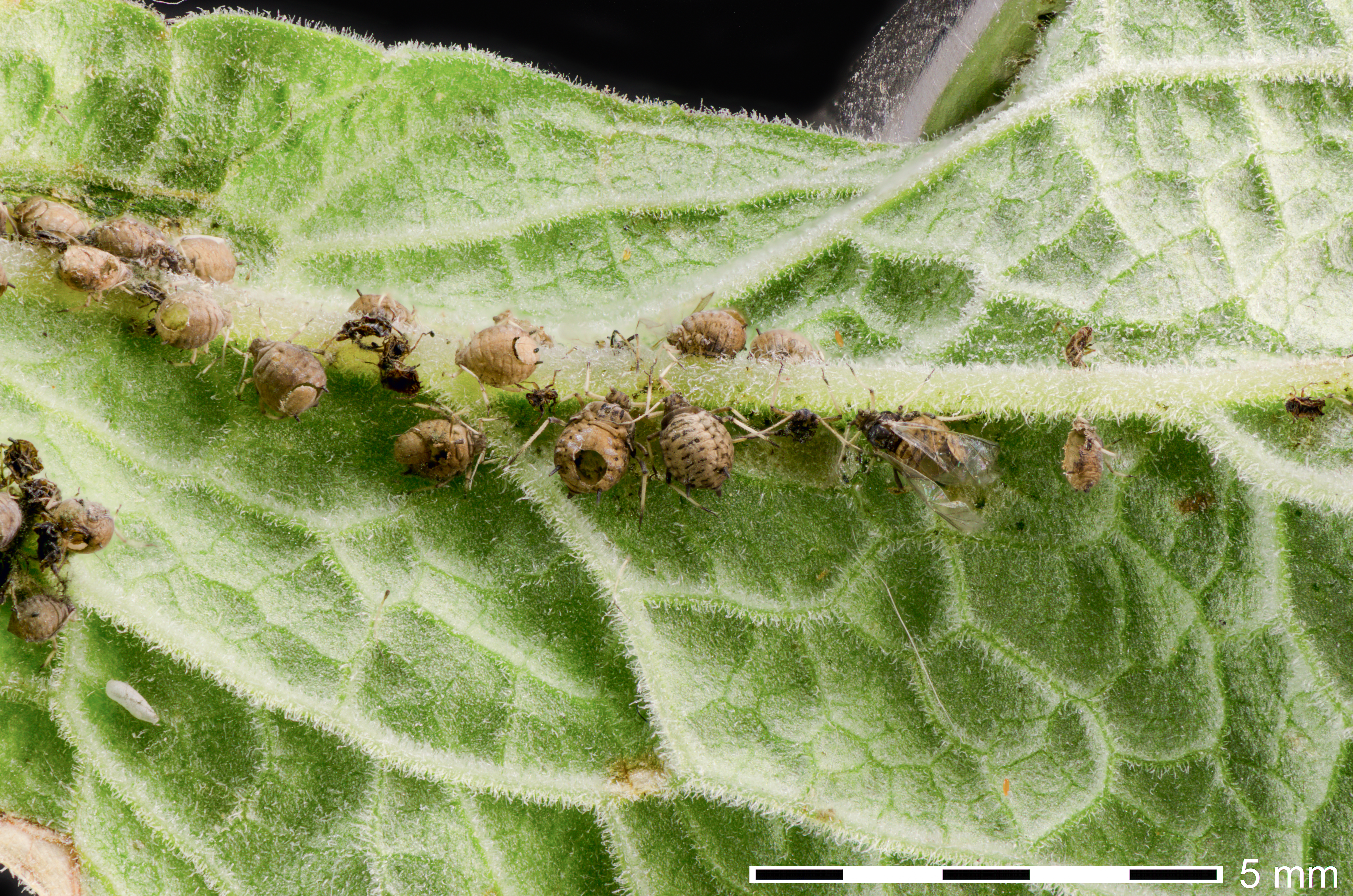 Aphids (Family Aphididae, most likely Aphis fabae) that were parasitized by wasps/aphidiids (subfamily Aphidiinae) on red foxglove (Digitalis purpurea): The wasp injects an egg into the aphid. The larvae grow in the aphids, they eat from the inside out completely and then cut a round hole in the aphid, through which they finally leave the host. Focus stack produced with Helicon Focus from 42 images.